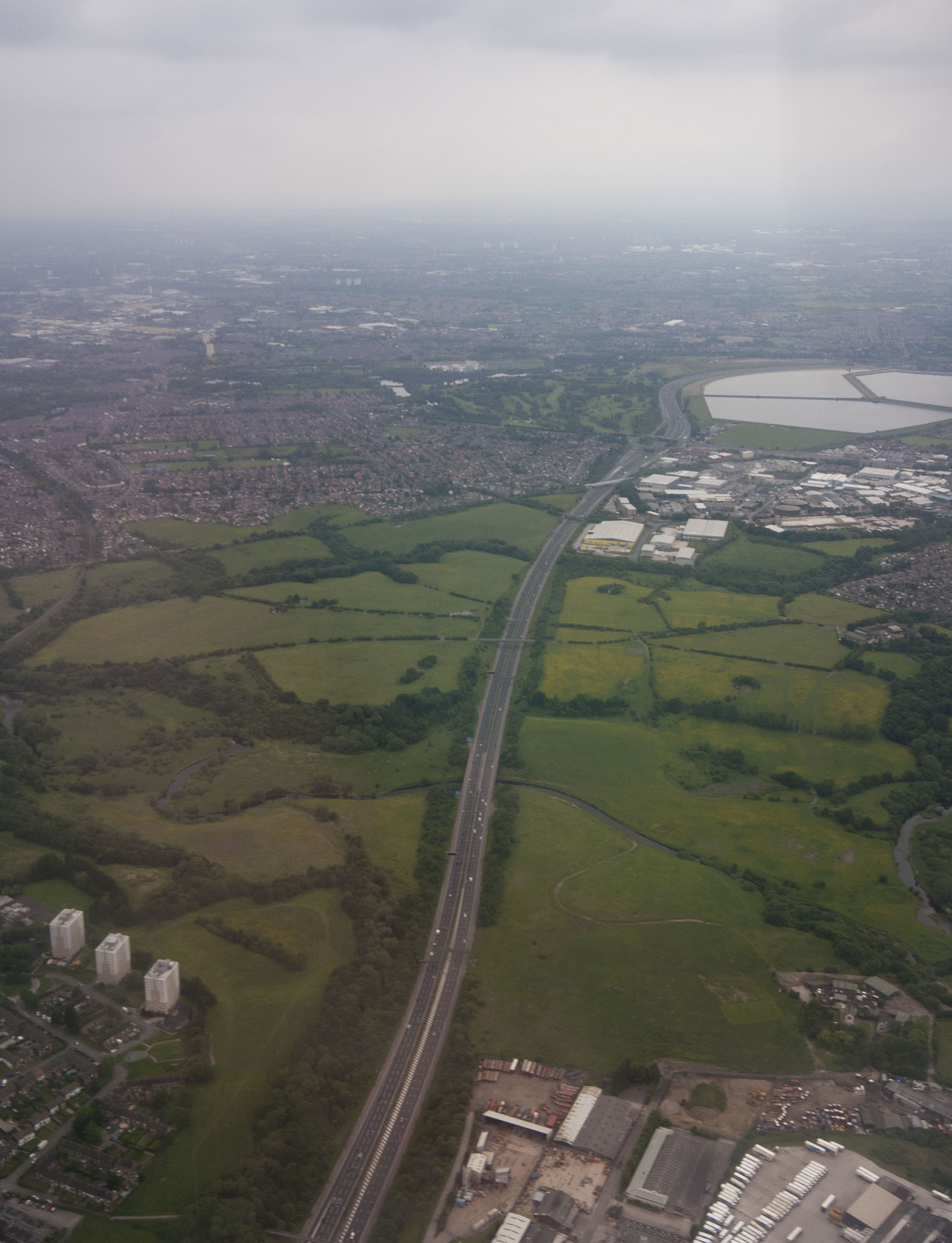 The M60 motorway, looking north from Bredbury towards J24, the western end of the M67